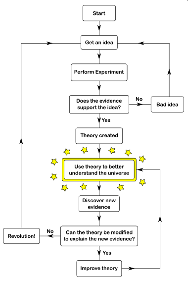 Flowchart that shows how an idea moves from hypothesis to accepted theory, with room for revision.